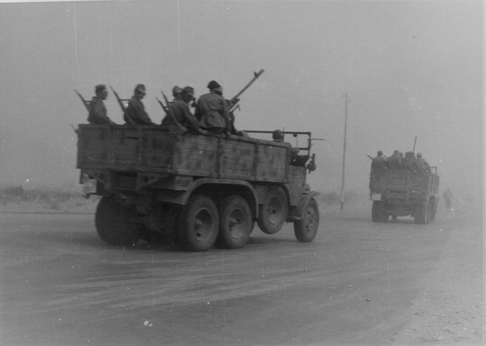 Italian XX Motorised Corps (XX Corpo d'Armata), commanded by General De Stefanis.